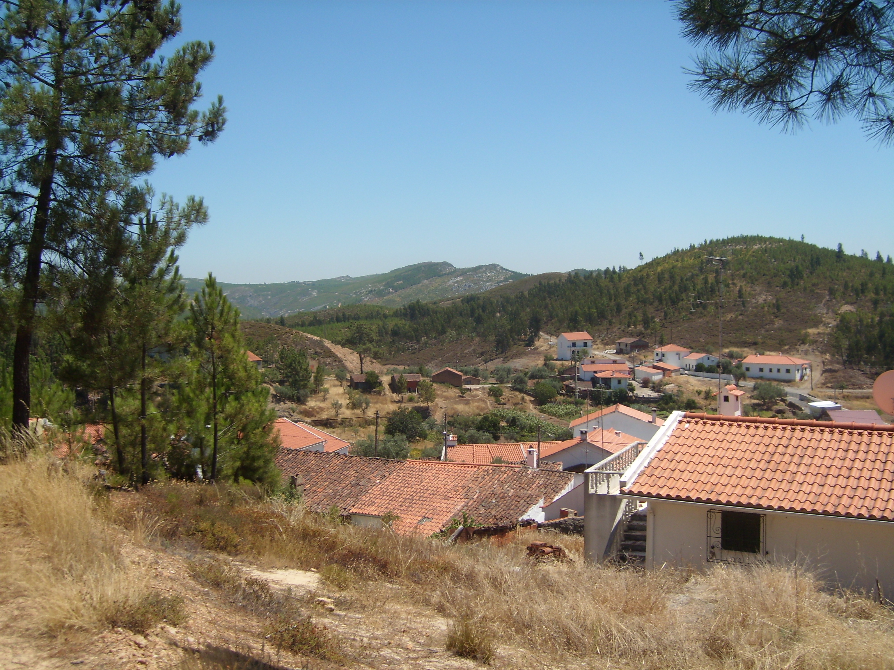 Photo of the Village of Caratão, August 2010. This photo is also on MY panoramio account so please do NOT remove it :)